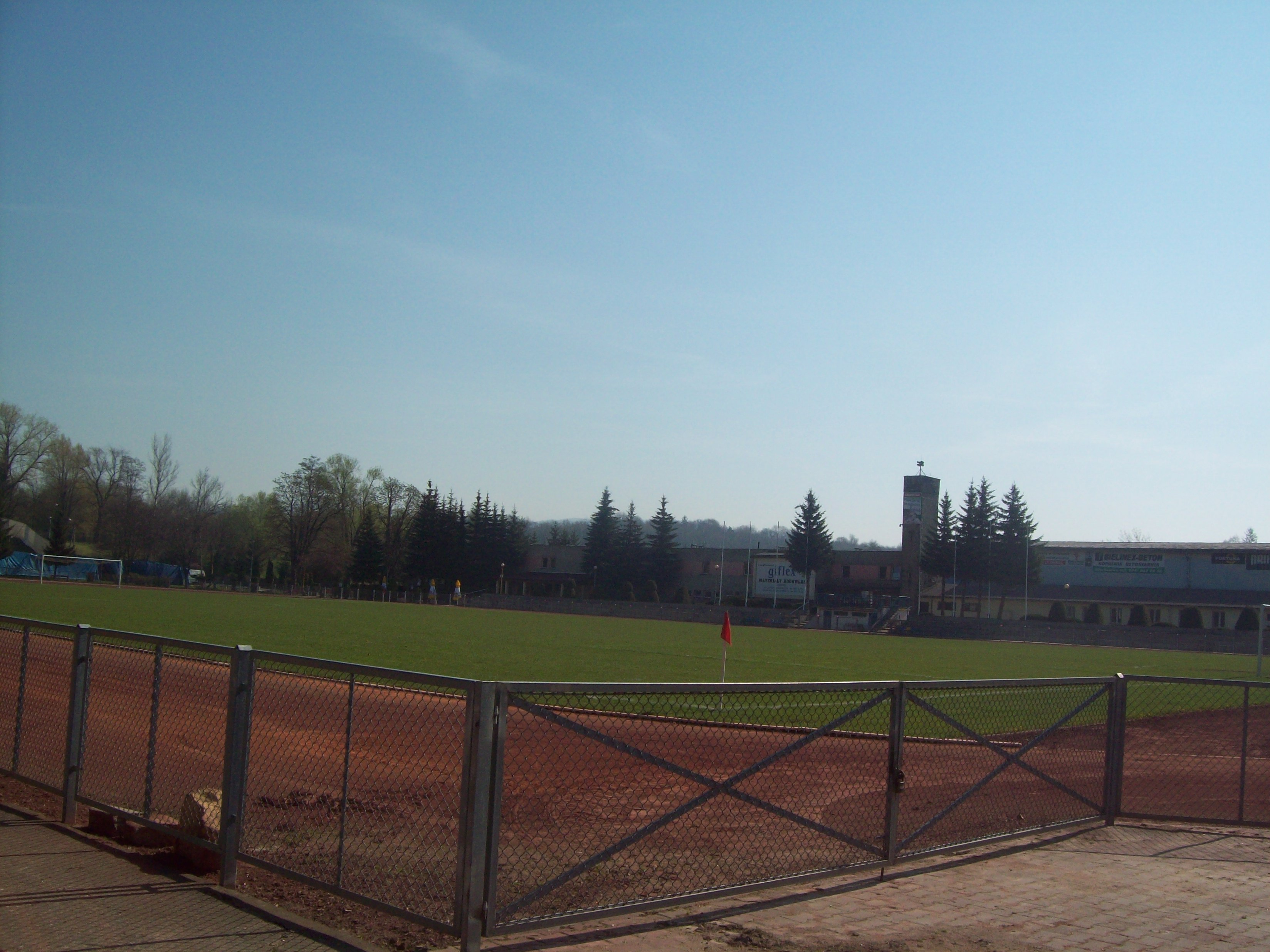 Motherboard pitch MKS Nysa Klodzko